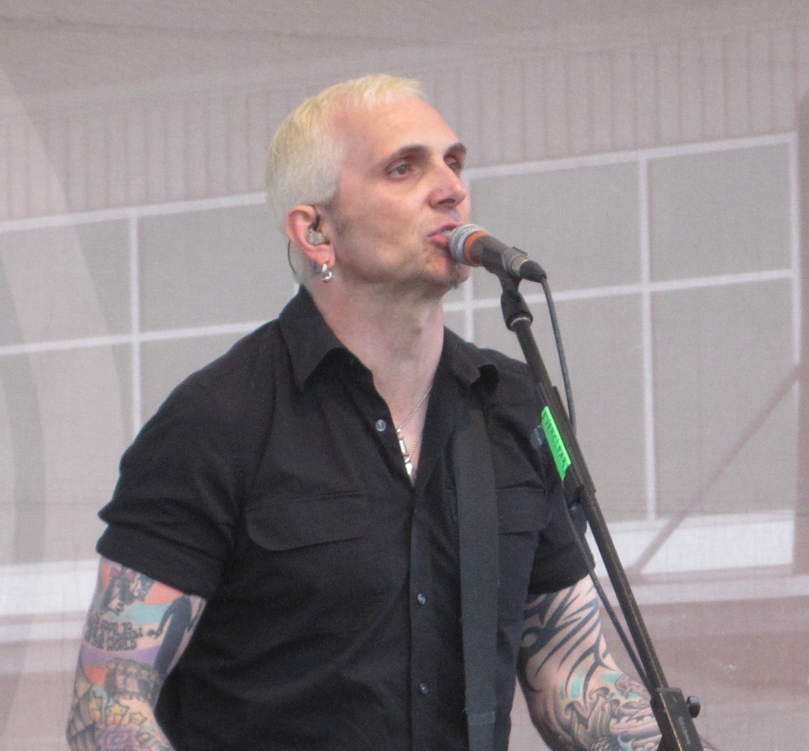 Art Alexakis, lead vocalist and rhythm guitarist for Everclear, performing at the Indianapolis Motor Speedway on Saturday, May 15, 2010.